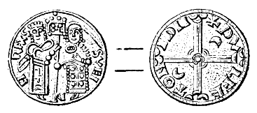 Coin struck for Sweyn II of Denmark, ca 1050